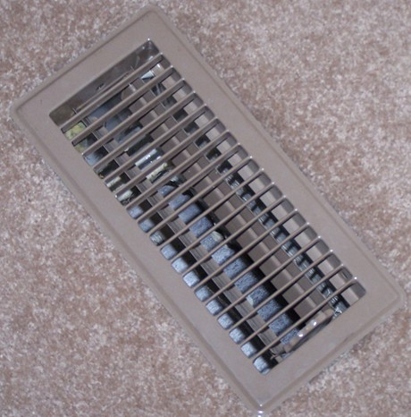 A photo of a metal floor register that heat and air comes out of.